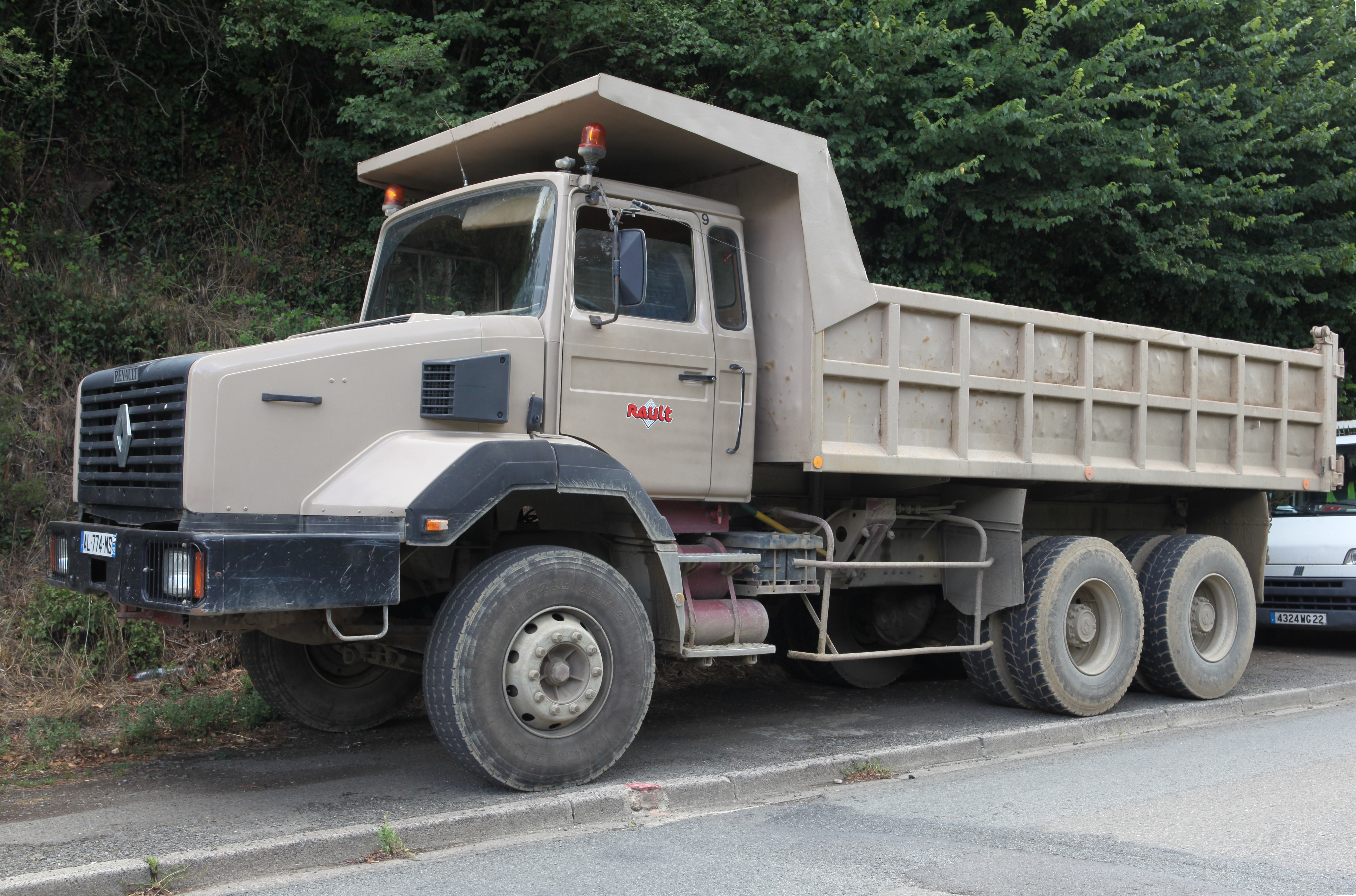 Renault Dump Truck.